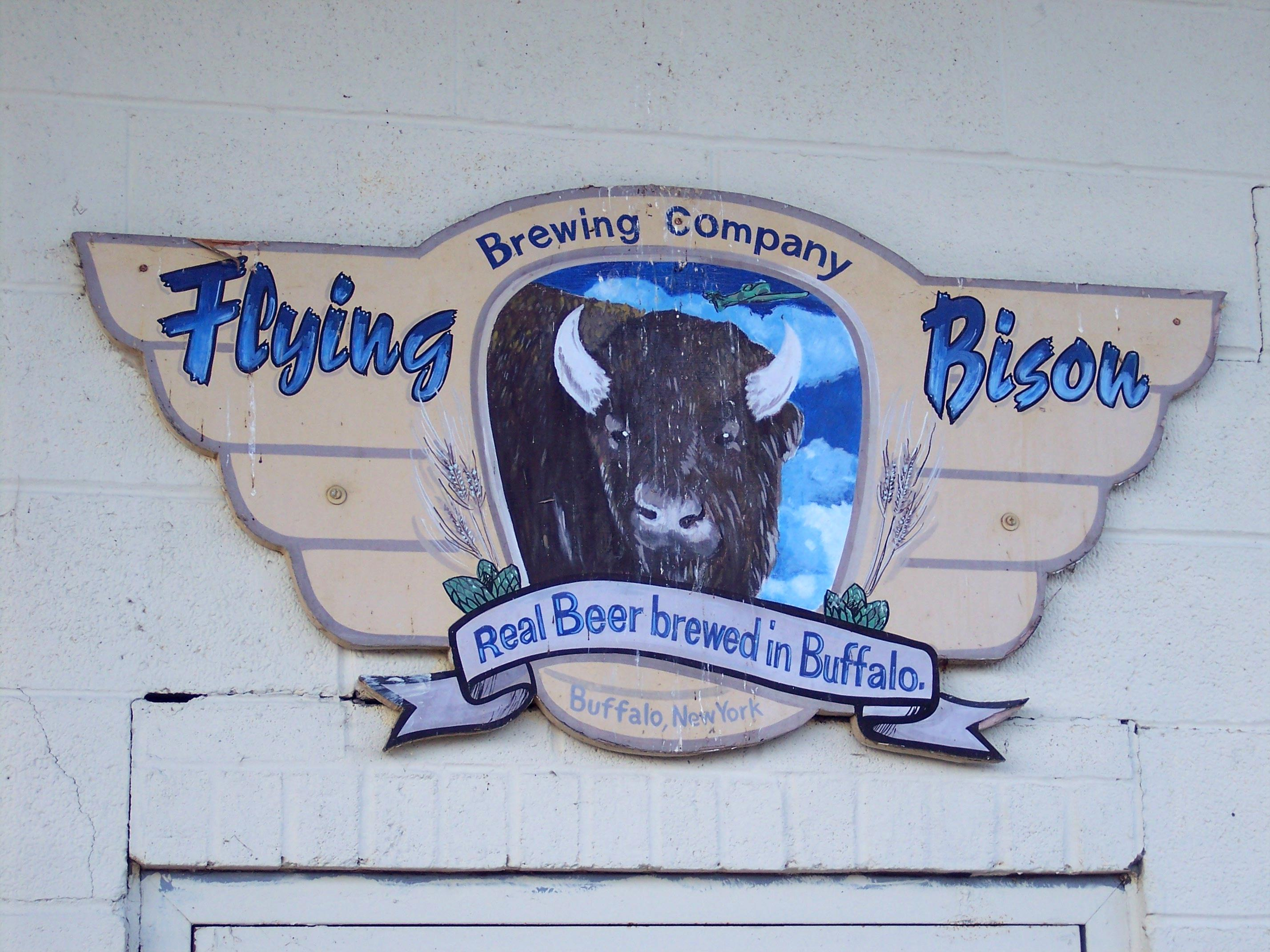 Flying Bison Sign above the rear entrance to the Flying Bison Brewery, Buffalo, New York